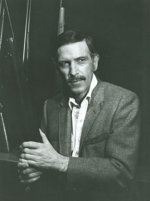 J. D. Cannon in the 1970s